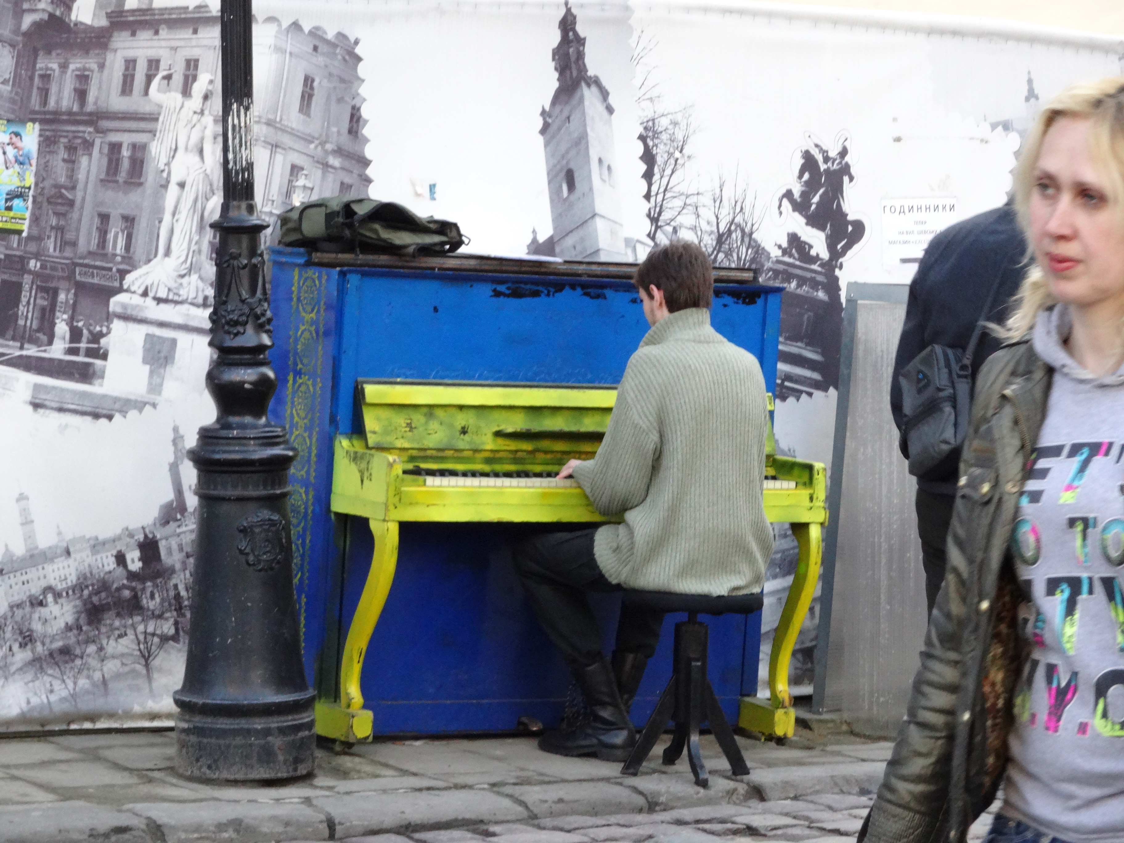 Piano Player on Lviv Market Place